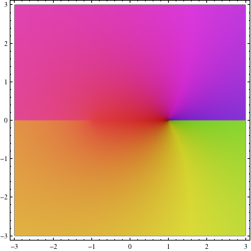 The arccos function on the complex plane